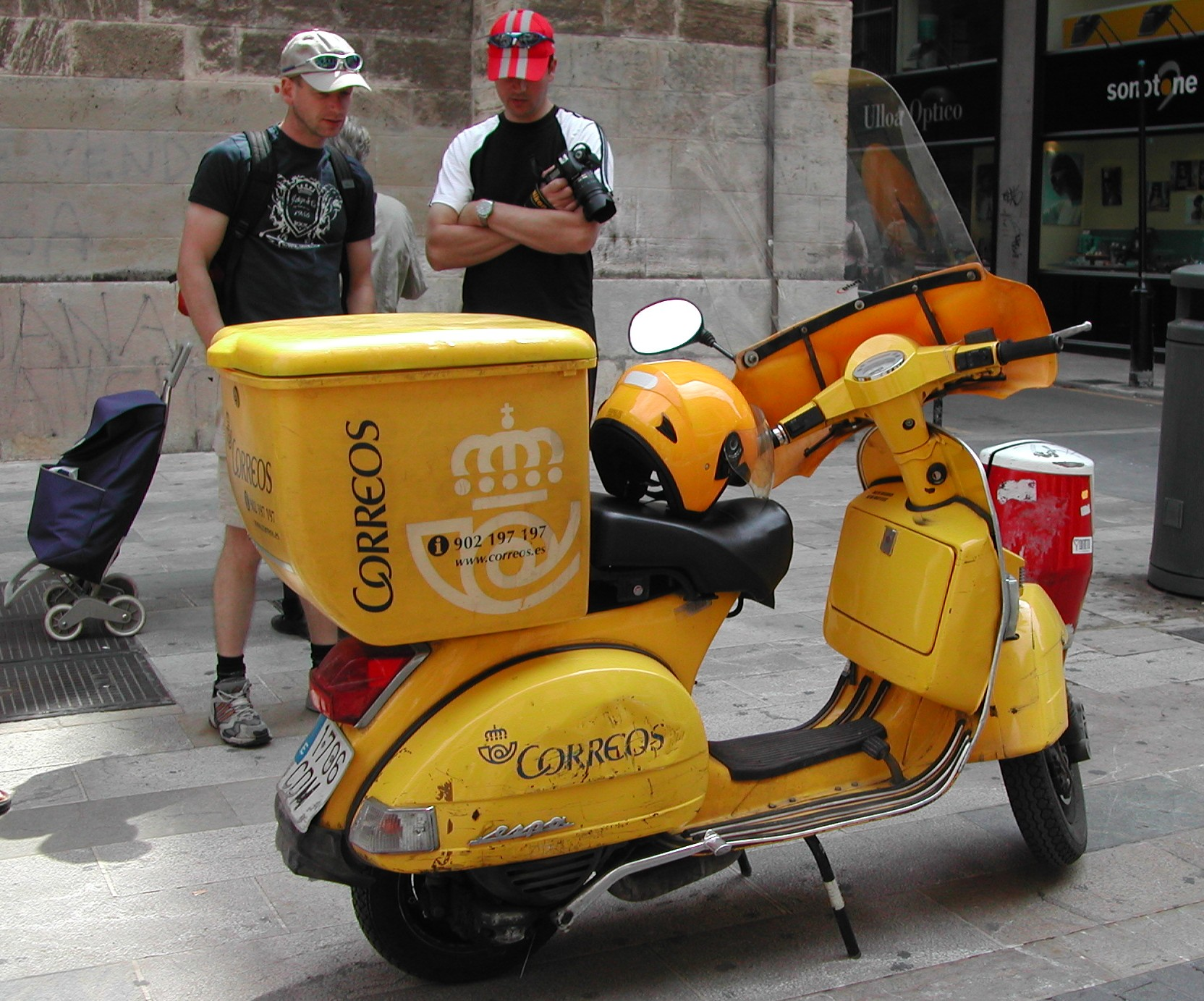 Postman vespa scooter parked at Sant Miquel street, Palma (Majorca).